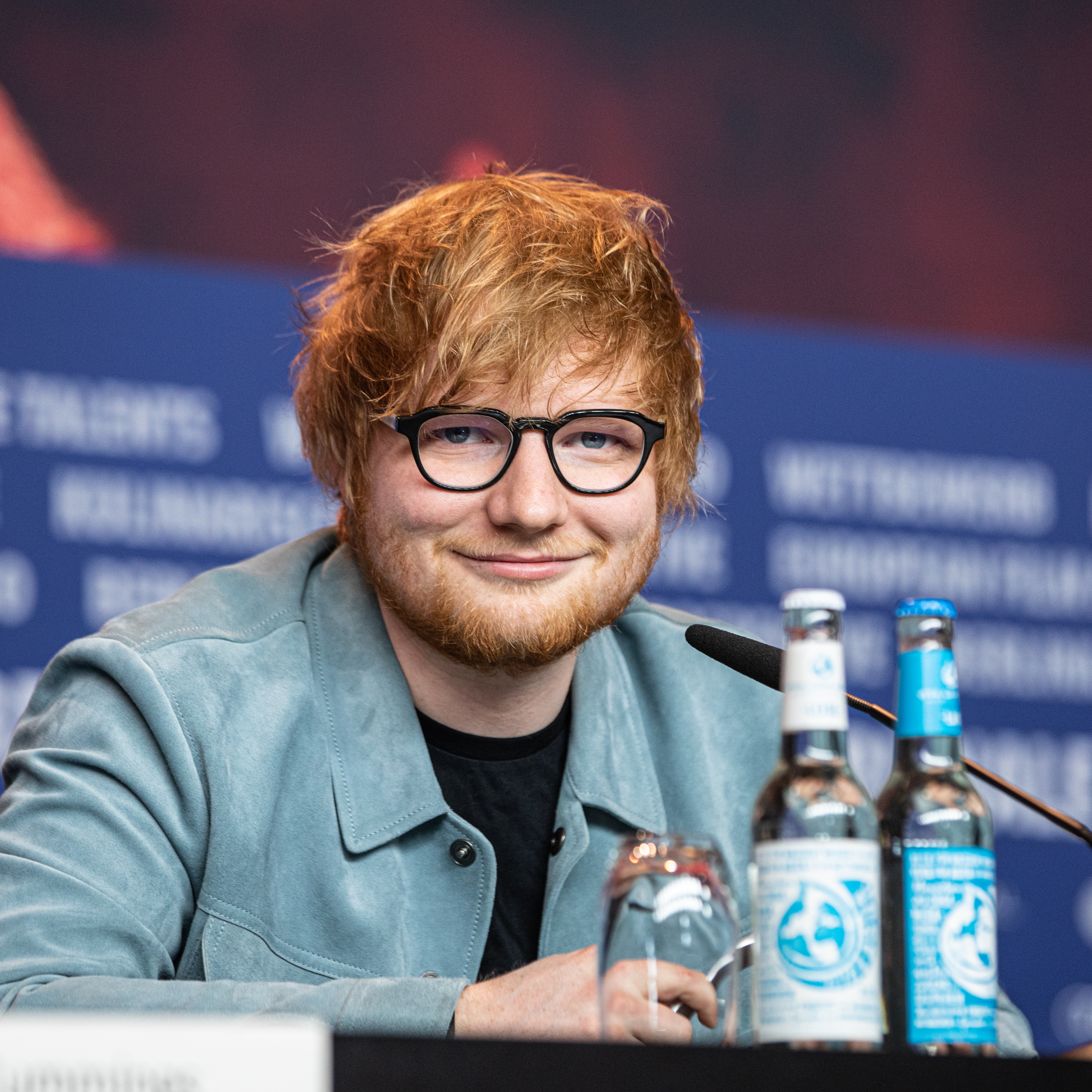 Singer-songwriter Ed Sheeran at the 68th Berlin International Film Festival 2018